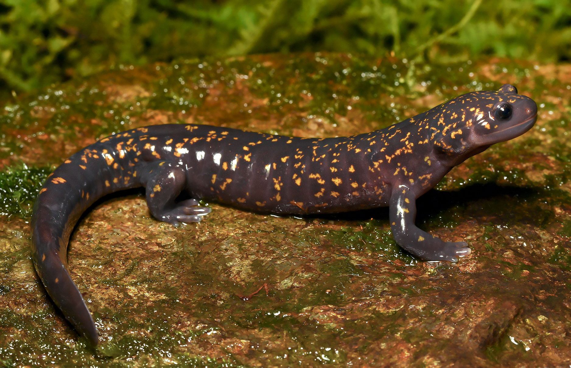 Male holotype of Hynobius fossigenus sp. nov. (ZMMU A-5862) in situ. Photo by H. Okamiya.